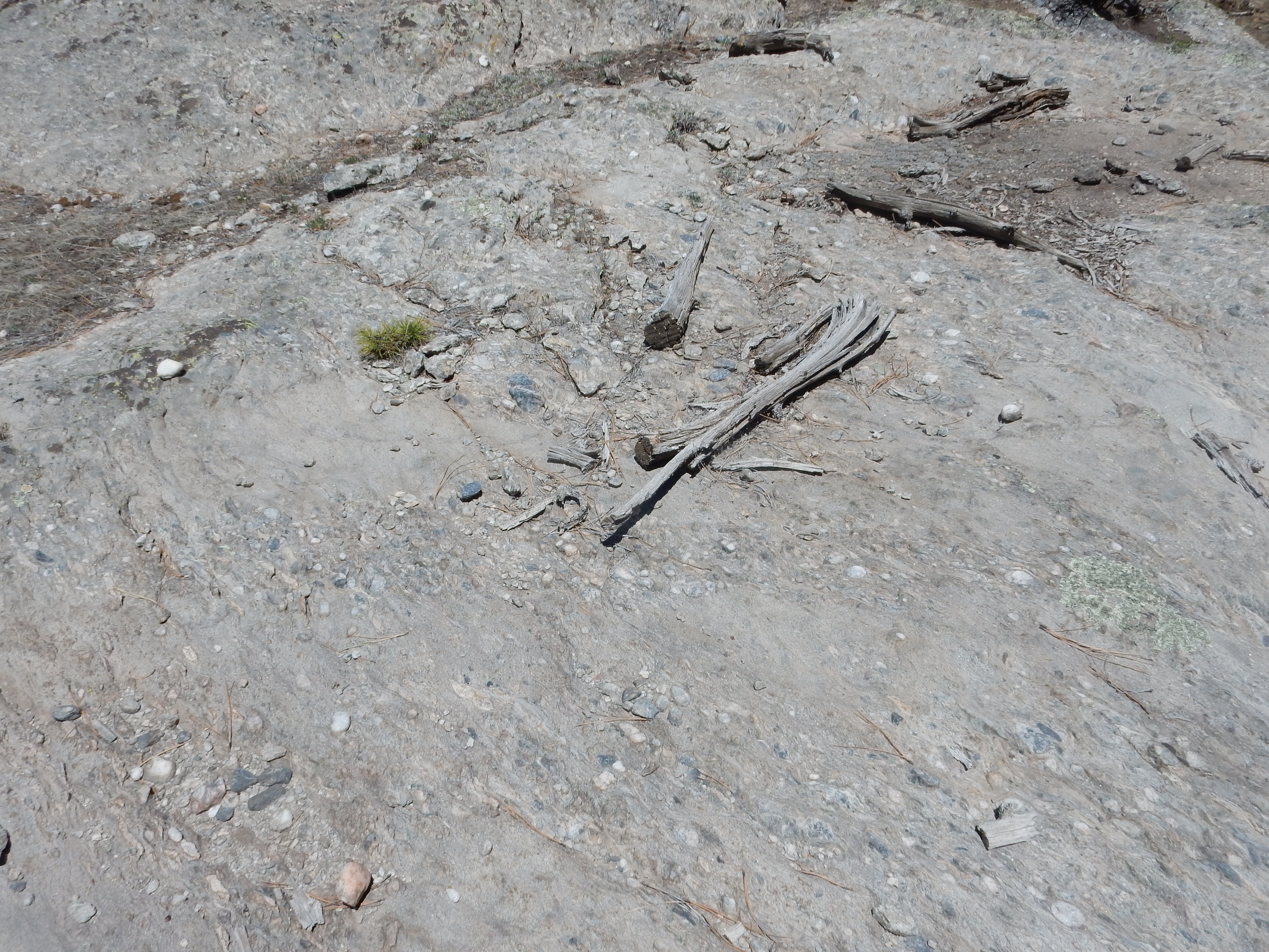 This photograph shows an outcrop of the Big Rock Formation, a Precambrian metaconglomerate, on Mesa la Cara in New Mexico, United States.